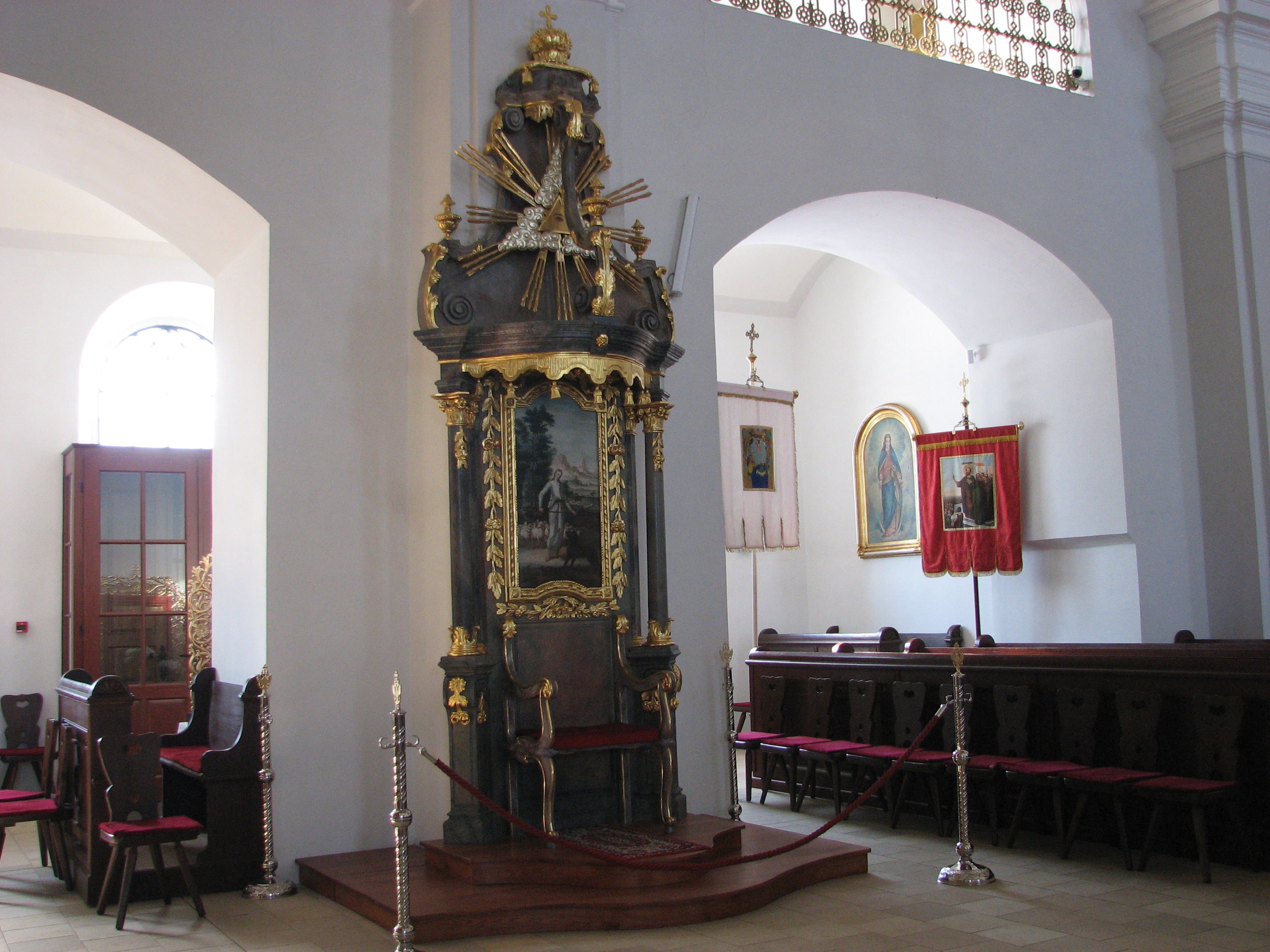 The episcopal throne in the Greek Catholic Cathedral of Hajdúdorog, Hungary. The painting that decorates the throne, called The good shepherd is one of the most precious one in the cathedral.